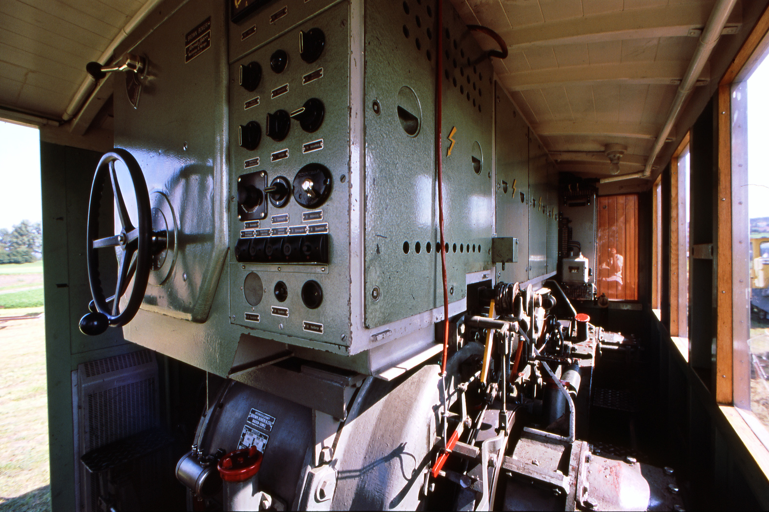 Driver's cab, Rowan locomotive He 2/2 no. 6 of the Jungfraubahn; Kallnach, Berne, Switzerland